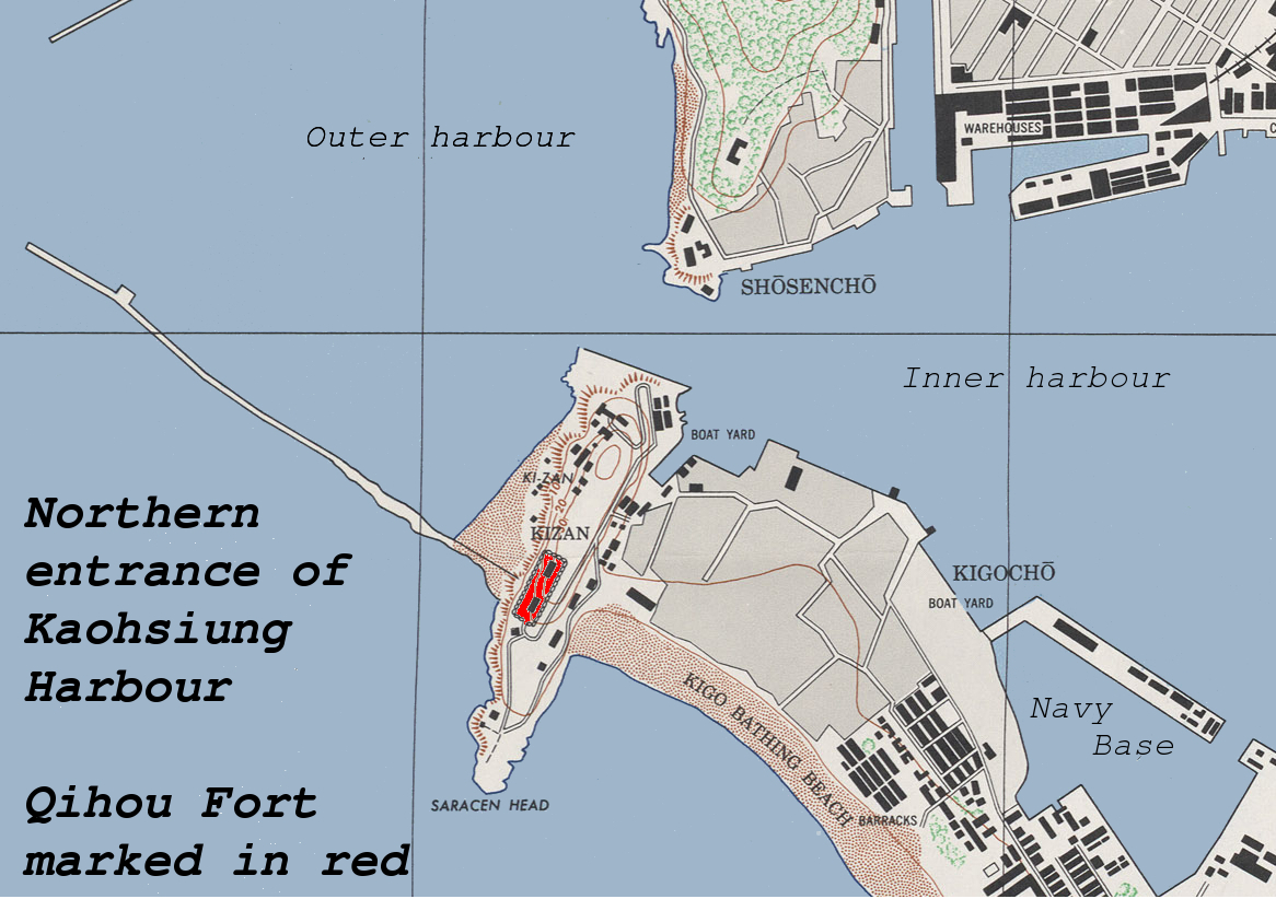 Map of the northern entrance to Kaohsiung Harbour with Qihou fort marked red.